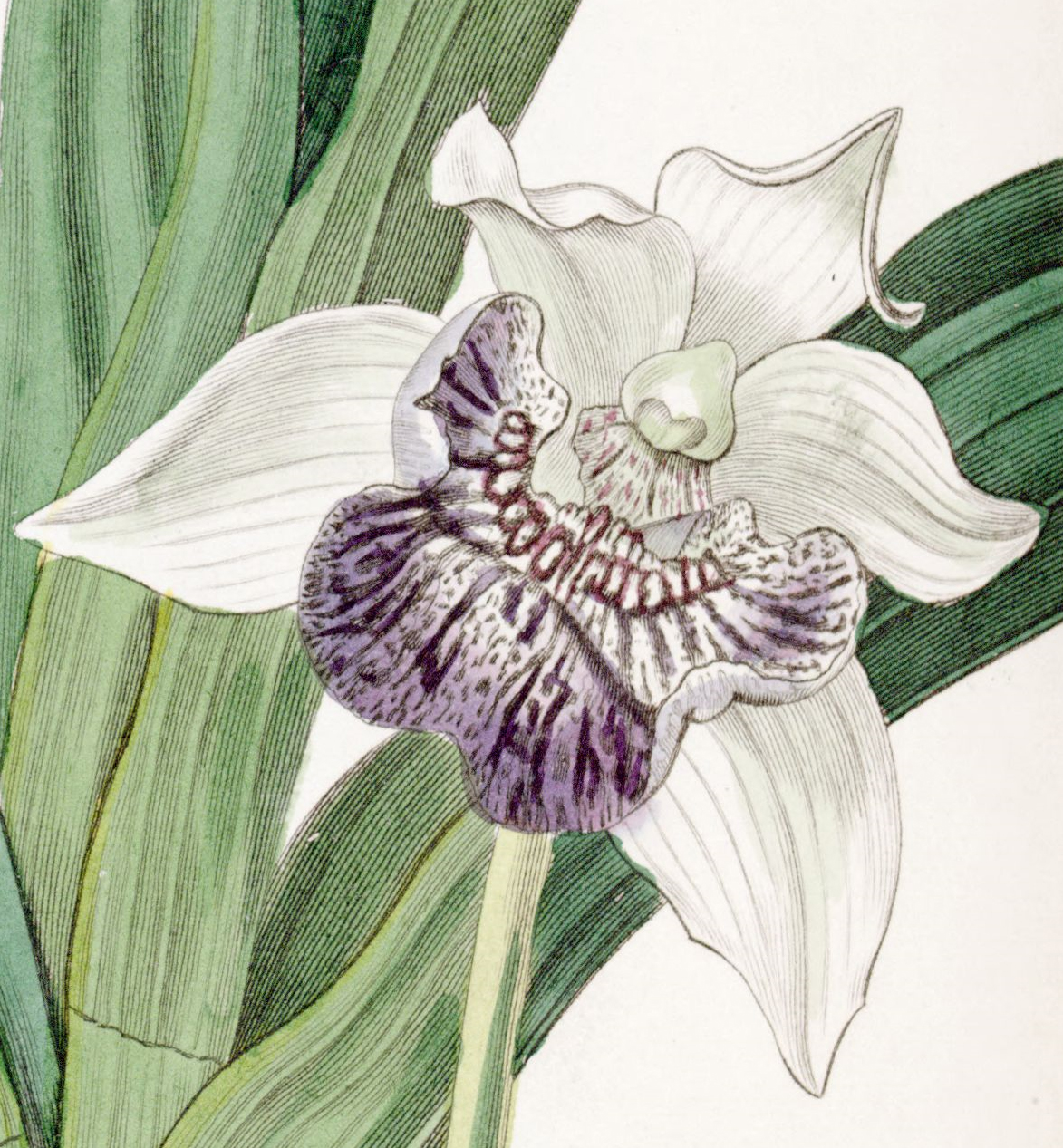 Cochleanthes flabelliformis (as syn. Zygopetalum cochleare)